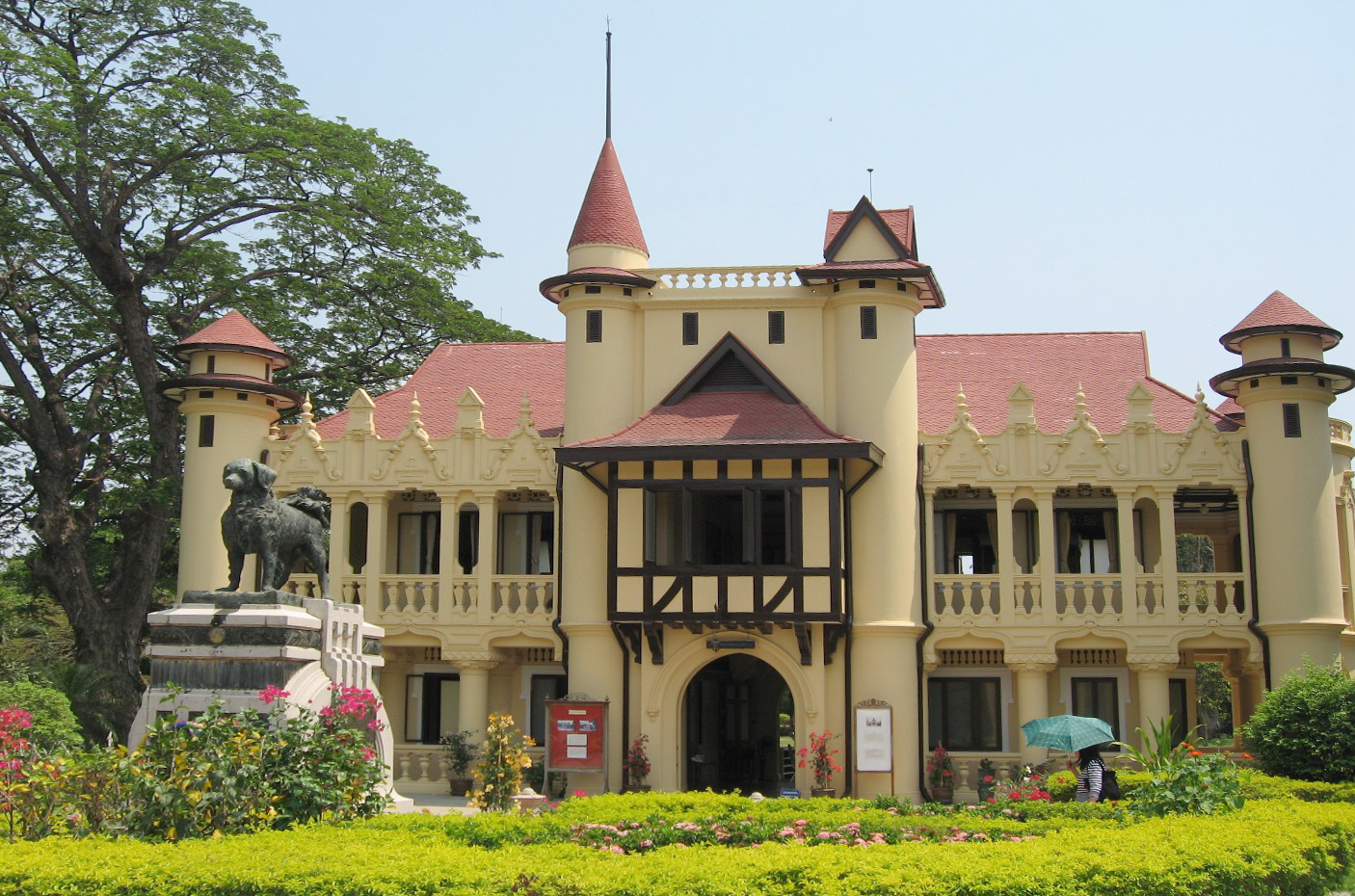 Chari Mongkhon At Throne Hall at Sanam Chan Palace, Nakhon Pathom Province, Thailand